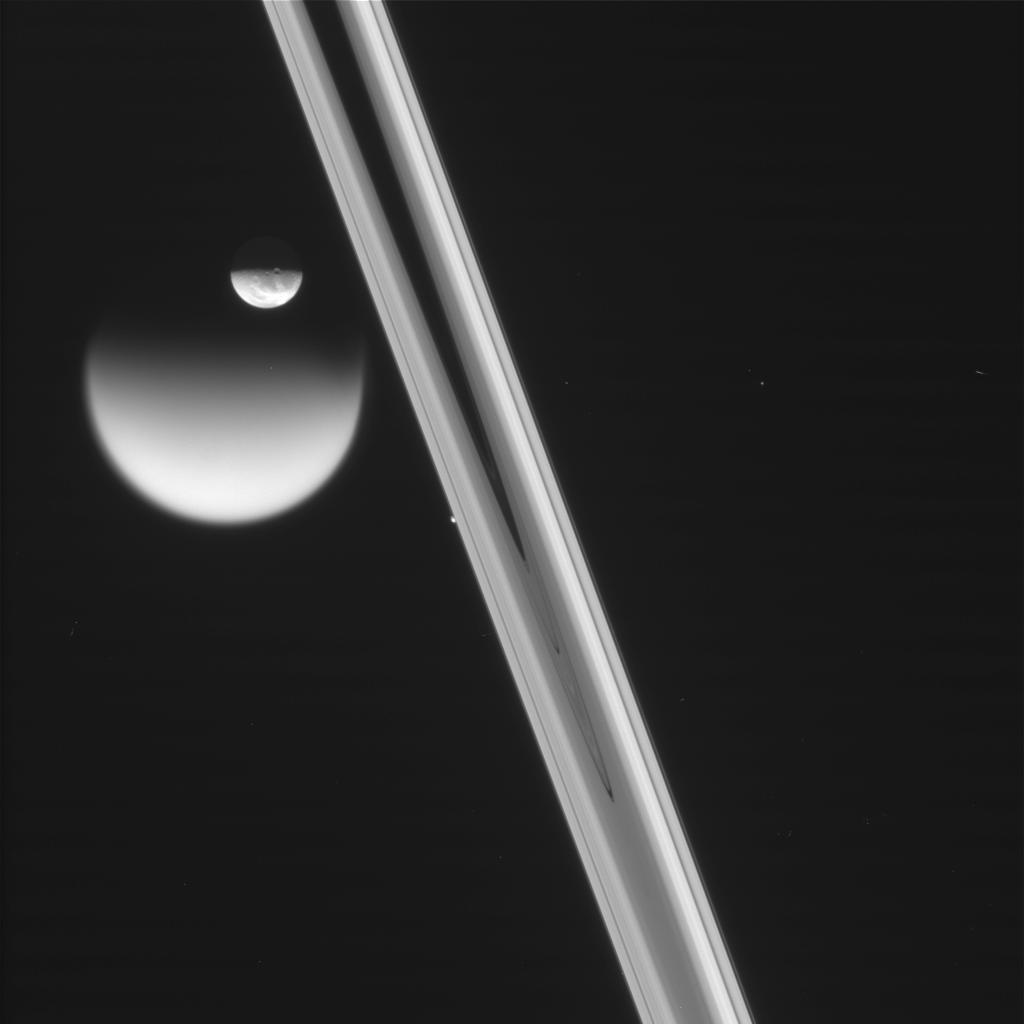 Four Saturn moons as seen from Cassini. Dione transits Titan by the rings of Saturn. Prometheus transits the rings. In a rare moment, the Cassini spacecraft captured this enduring portrait of a near-alignment of four of Saturn's restless moons. Timing is critical when trying to capture a view of multiple bodies, like this one. All four of the moons seen here were on the far side of the rings from the spacecraft when this image was taken; and about an hour later, all four had disappeared behind Saturn. Seen here are Titan (5,150 kilometers, or 3,200 miles across) and Dione (1,126 kilometers, or 700 miles across) at bottom; Prometheus (102 kilometers, or 63 miles across) hugs the rings at center; Telesto (24 kilometers, or 15 miles across) is a mere speck in the darkness above center. The image was taken in visible light with the Cassini narrow-angle camera on Oct. 17, 2005 at a distance of approximately 3.4 million kilometers (2.1 million miles) from Dione and 2.5 million kilometers (1.6 million miles) from Titan. The image scale is 16 kilometers (10 miles) per pixel on Dione and 21 kilometers (13 miles) per pixel on Titan.